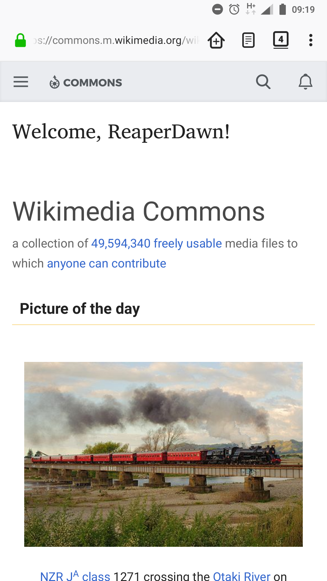 Firefox for Android 62, showing Wikimedia Commons